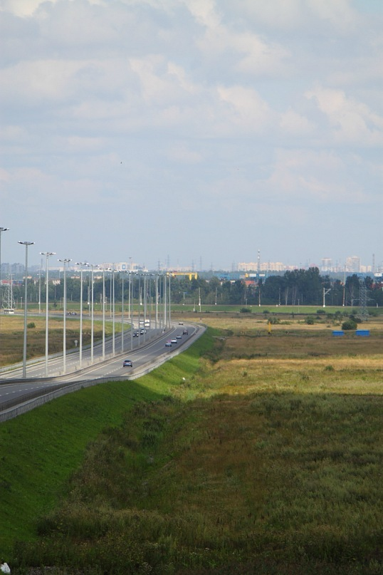 highway in southern St.Petersburg. Russia